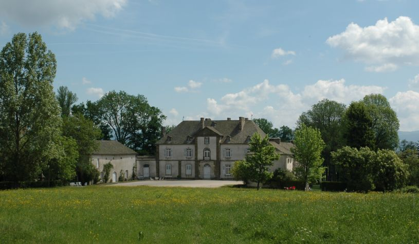 Chassan Castle (Cantal) Faverolles, Auvergne, France